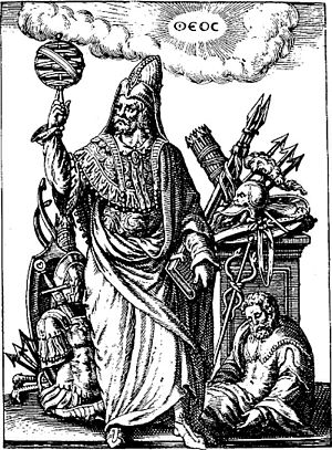 Hermes Trismegistus. From English Wikipedia: Image:HermesTrismegistusCauc.jpg, stating: "It is obvious that this is one of many, many pictures from the Middle Ages or Renaissance of this subject. It has been scanned and put on the Internet by someone, who is not credited on the site this was received from. This same image appears more than once on the first page in Google's image search under "hermes trismegistus". Seeing as the author, being mortal, certainly died centuries ago, there should be no problem with copyright infringement. Further research indicates that the image is 'Engraving of Mercurius Trismegistus from Pierre Mussard, Historia Deorum fatidicorum, Venice, 1675.' This information was obtained from Adam McLean's Alchemy website